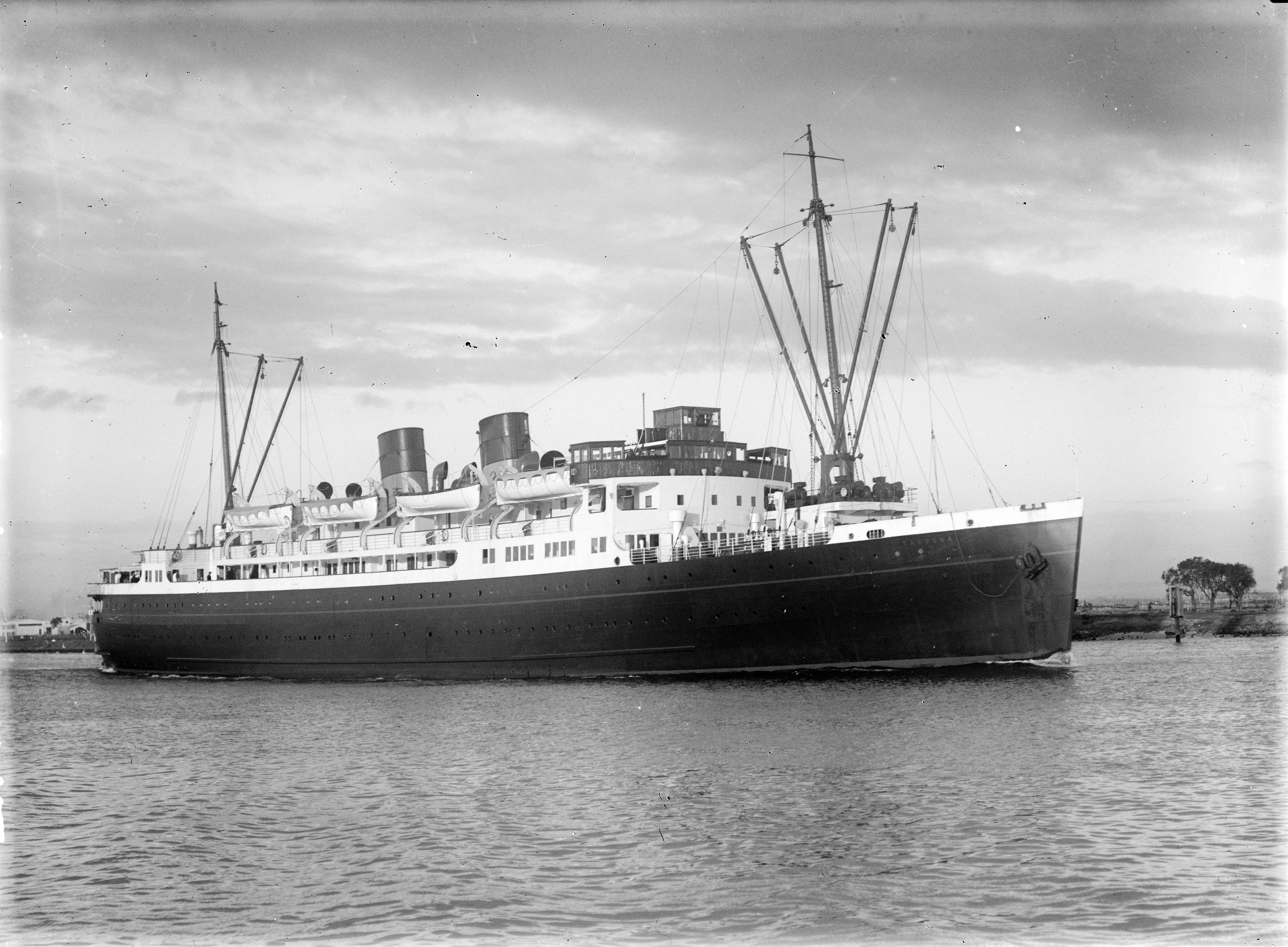 Taroona